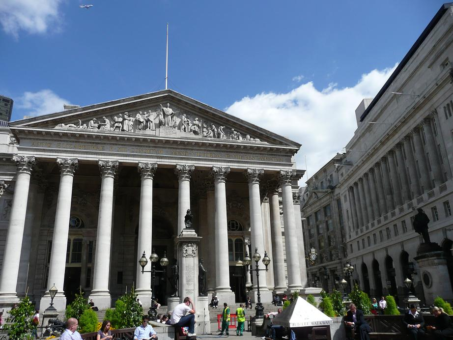 Royal Exchange